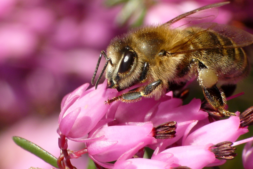 Erica Darleyensis